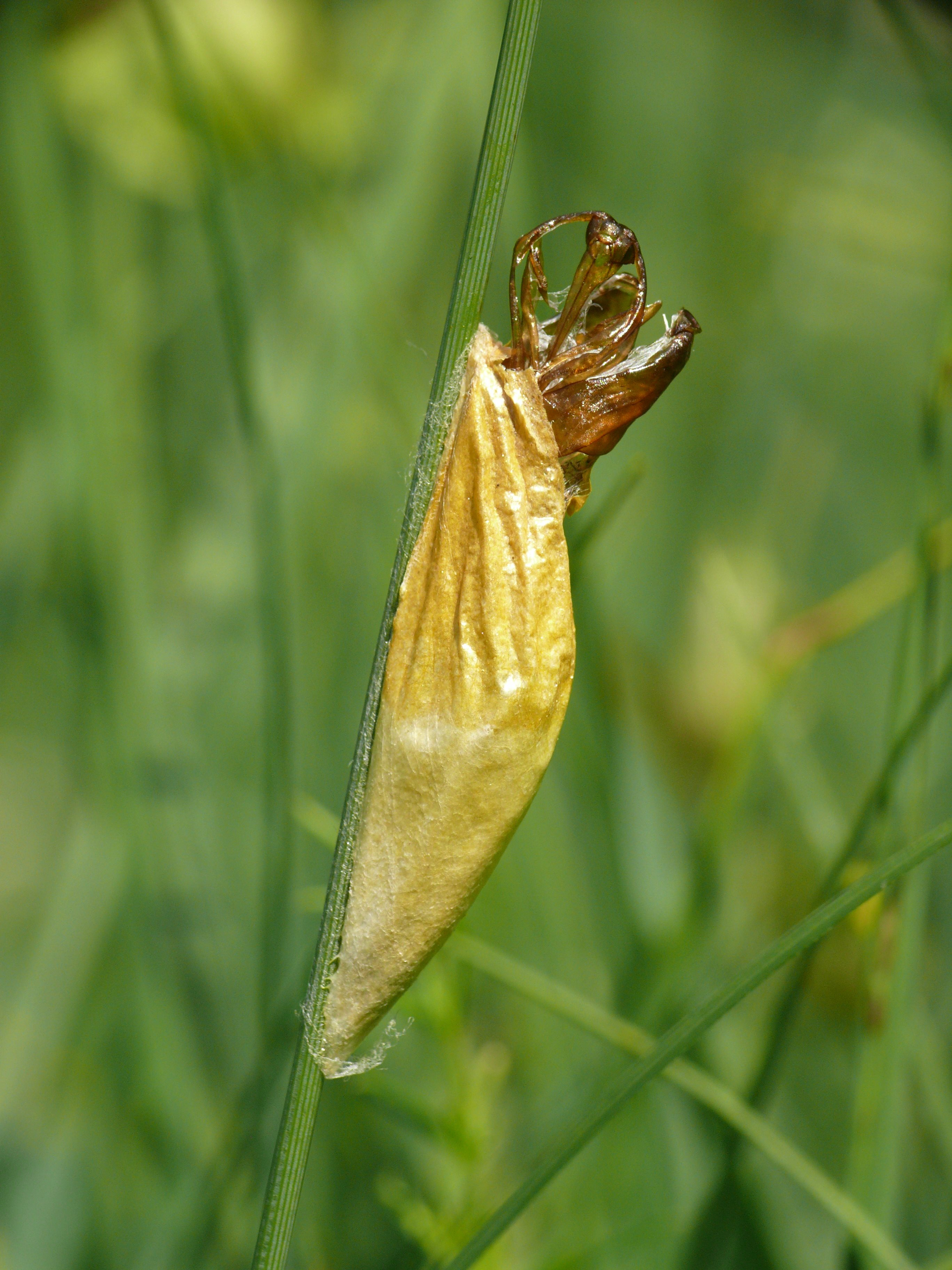 Coccon and exuvia of a Six-spot Burnet (Zygaena filipendulae), Bairawies, Bavaria, Germany